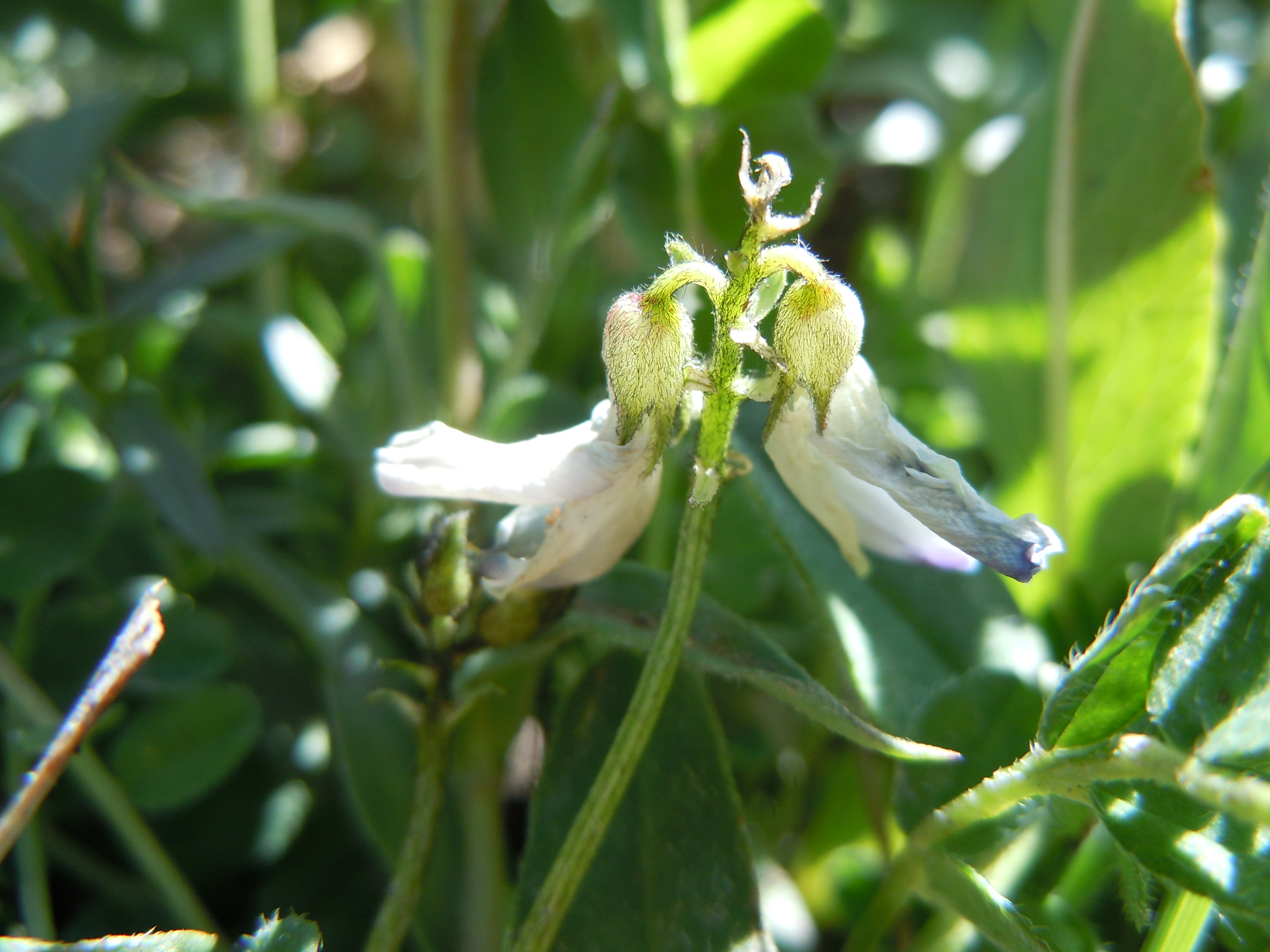 Astragalus alpinus seems to be restricted in alpine settings to where vegetation cover is relatively dense, as if on or near a seep.